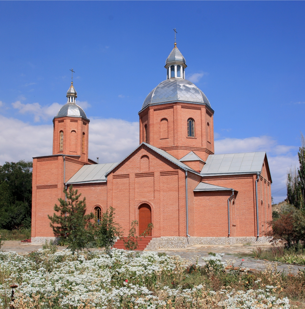 Church St. Stephen Surosh in the village of Ordzhonikidze in Crimea